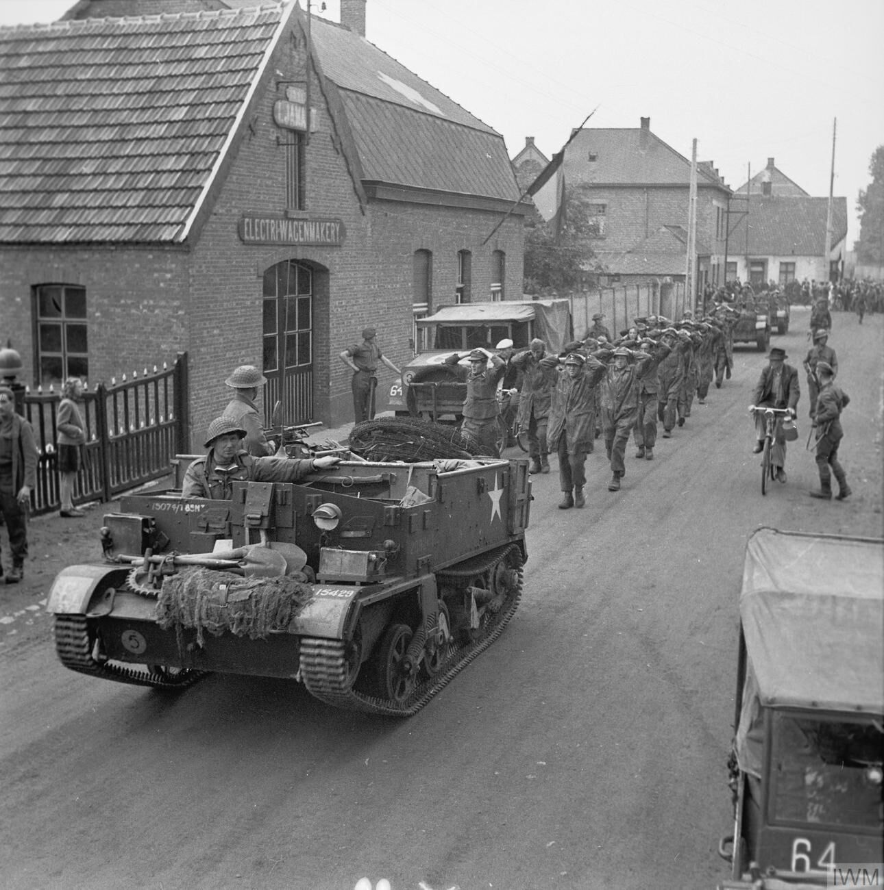 A Bren Gun Carrier (Universal/Windsor) brings in a batch of German prisoners during 158 Brigade's attack. 158 Brigade (53 Division) was tasked to cross the Escaut Canal near Lommel in order to continue the advance into Holland. The Brigade's night attack was launched on 17 - 18 September 1944 and met fierce resistance from the German parachutist defenders. Comment: this is Universal Carrier. Pibwl 21:51, 29 November 2006 (UTC)